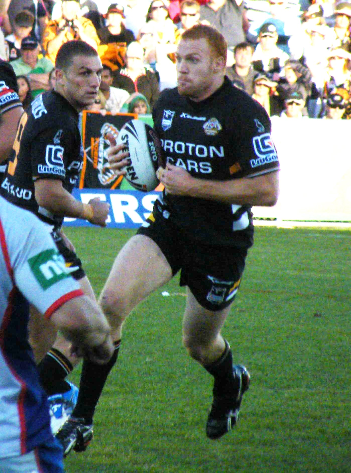 Keith Galloway of the West Tigers